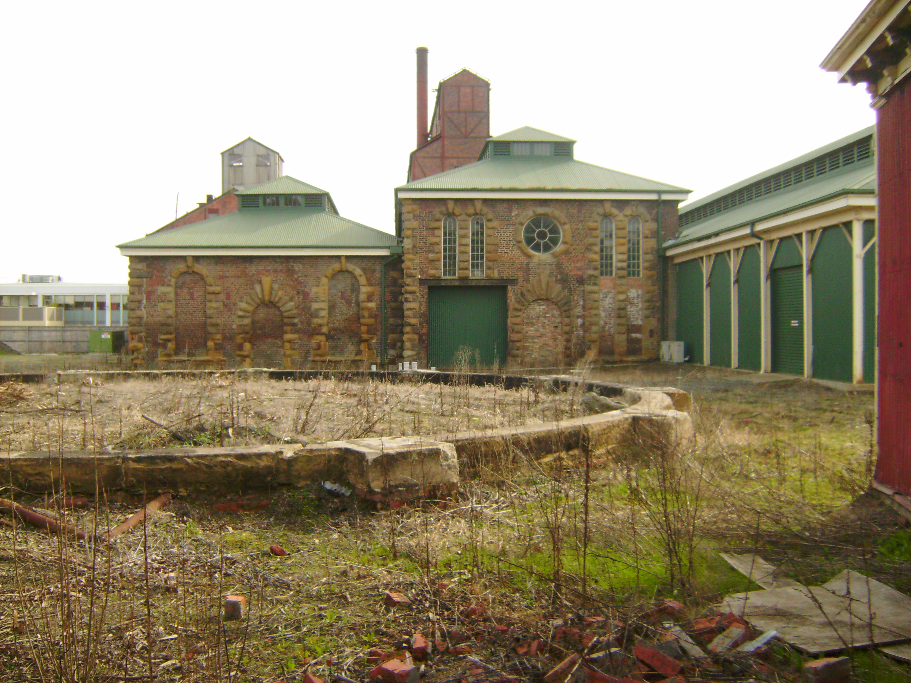 The original 1860s horizontal retort buildings and gas cell foundations viewed from Cimitier Street. The 1930s vertical retort is visable in the center of the background with the iron stack. Taken July 2011.